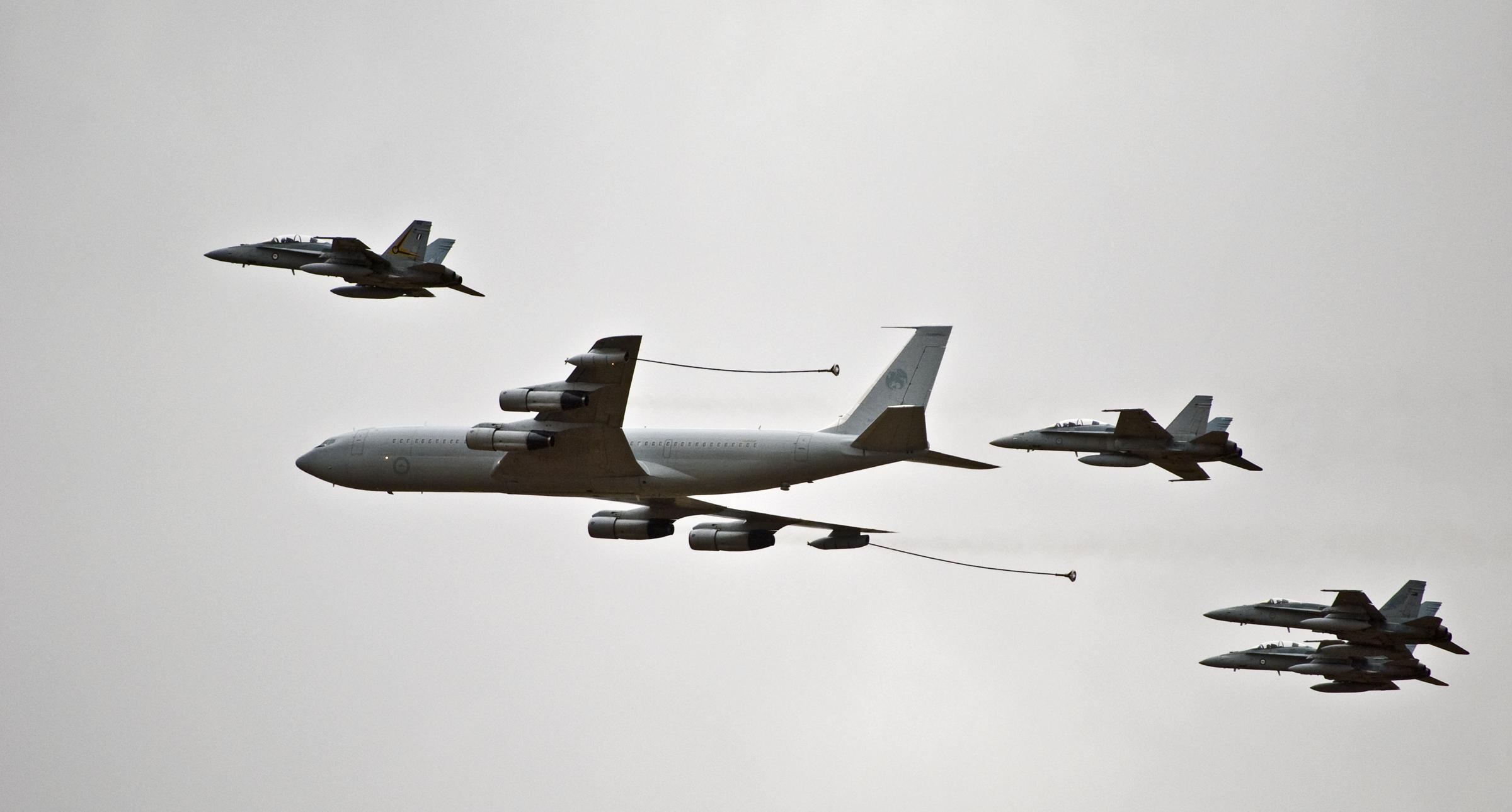 Royal Australian Air Force F/A-18 fighters with a Boeing 707 tanker aircraft